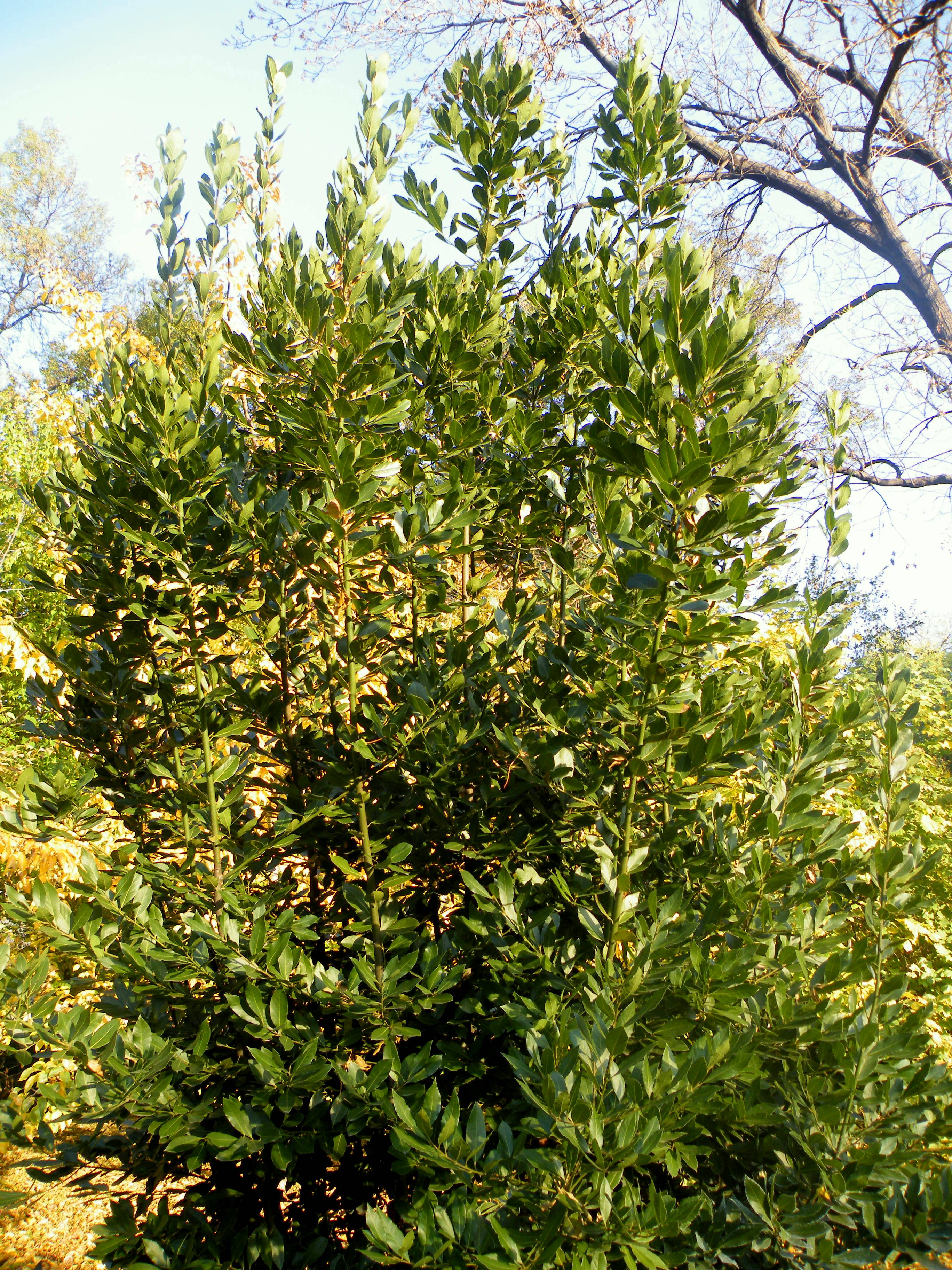 Laurus nobilis is an aromatic evergreen tree or large shrub with green, glossy leaves, native to the Mediterranean region.